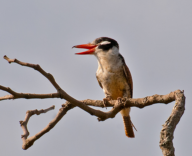 A White-eared Puffbird in Extrema, Minas Gerais, Brazil.